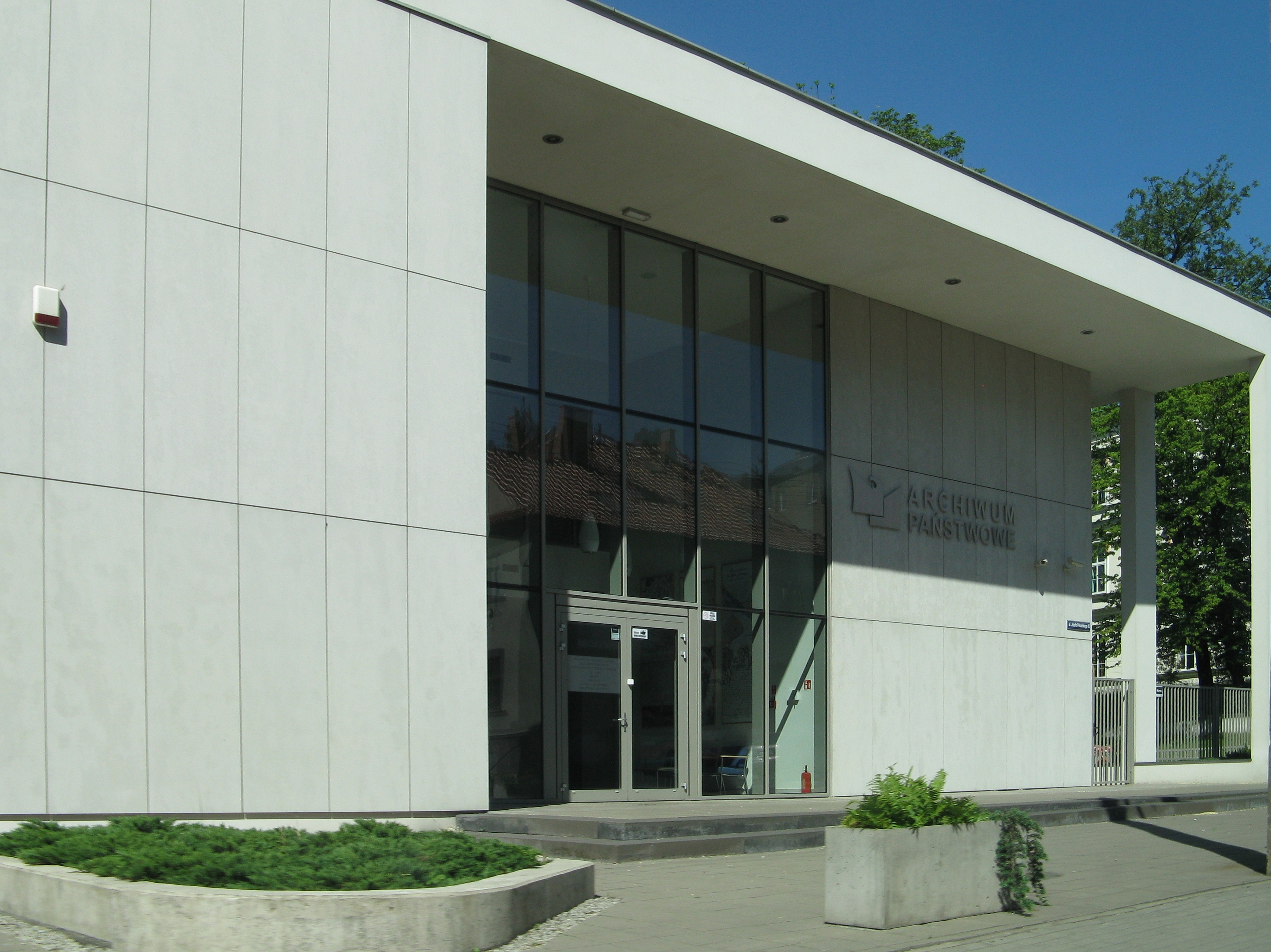 The seat of the National Archive in Bielsko-Biała, Poland.